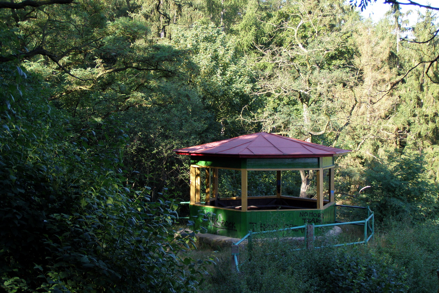 Třebíč-Jejkov. City public park Lísčí. Pavillon. Established 1891–1896